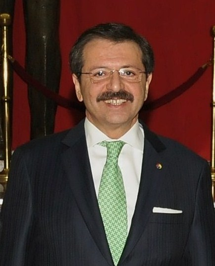 A portrait of Rifat Hisacıklıoğlu.